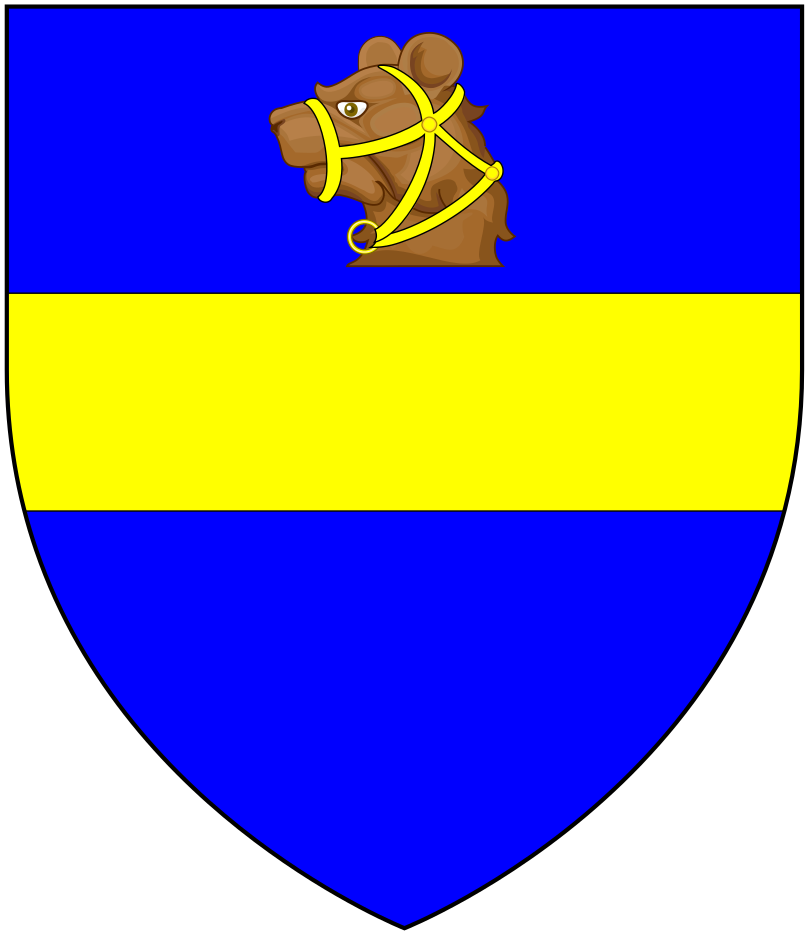 Arms of Baring, Baron Ashburton: Azure, a fesse or in chief a bear's head proper muzzled and ringed of the second (Debrett's Peerage, 1968, p.82)